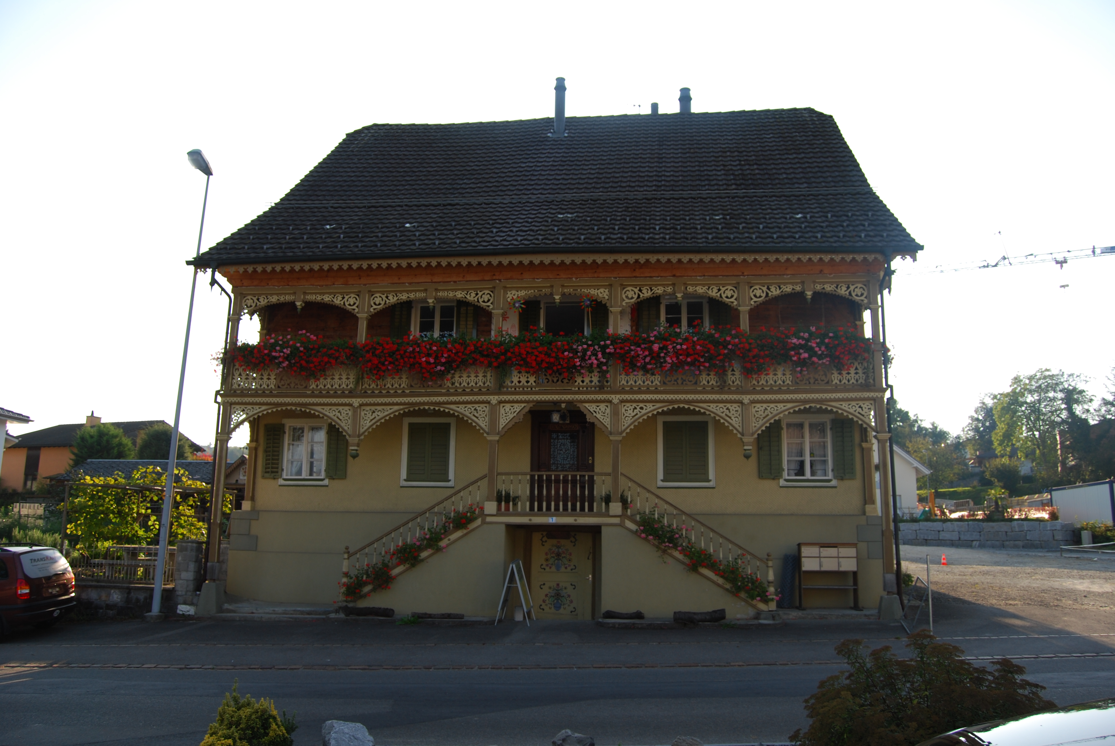 Dietwil, canton of Aargau, SwitzerlandEsperanto: Dietwil, Kantono Argovio, Svislando